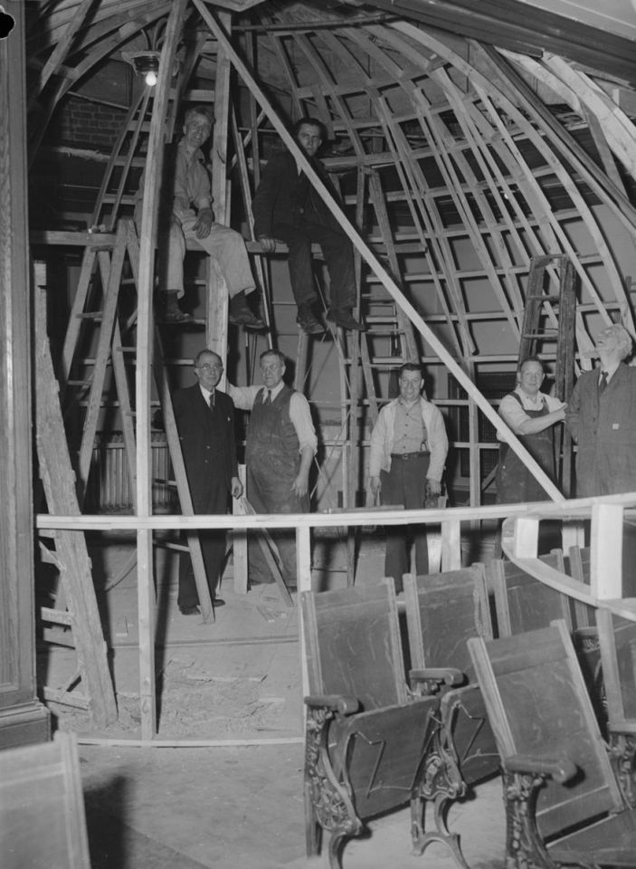 We see the structure of the projection of the planetarium dome of The High School of Montreal. Two people sitting on scaffolding.